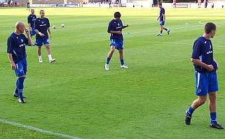 Manager Mark Stimson leads the warm-up before a Gillingham F.C. match in 2008